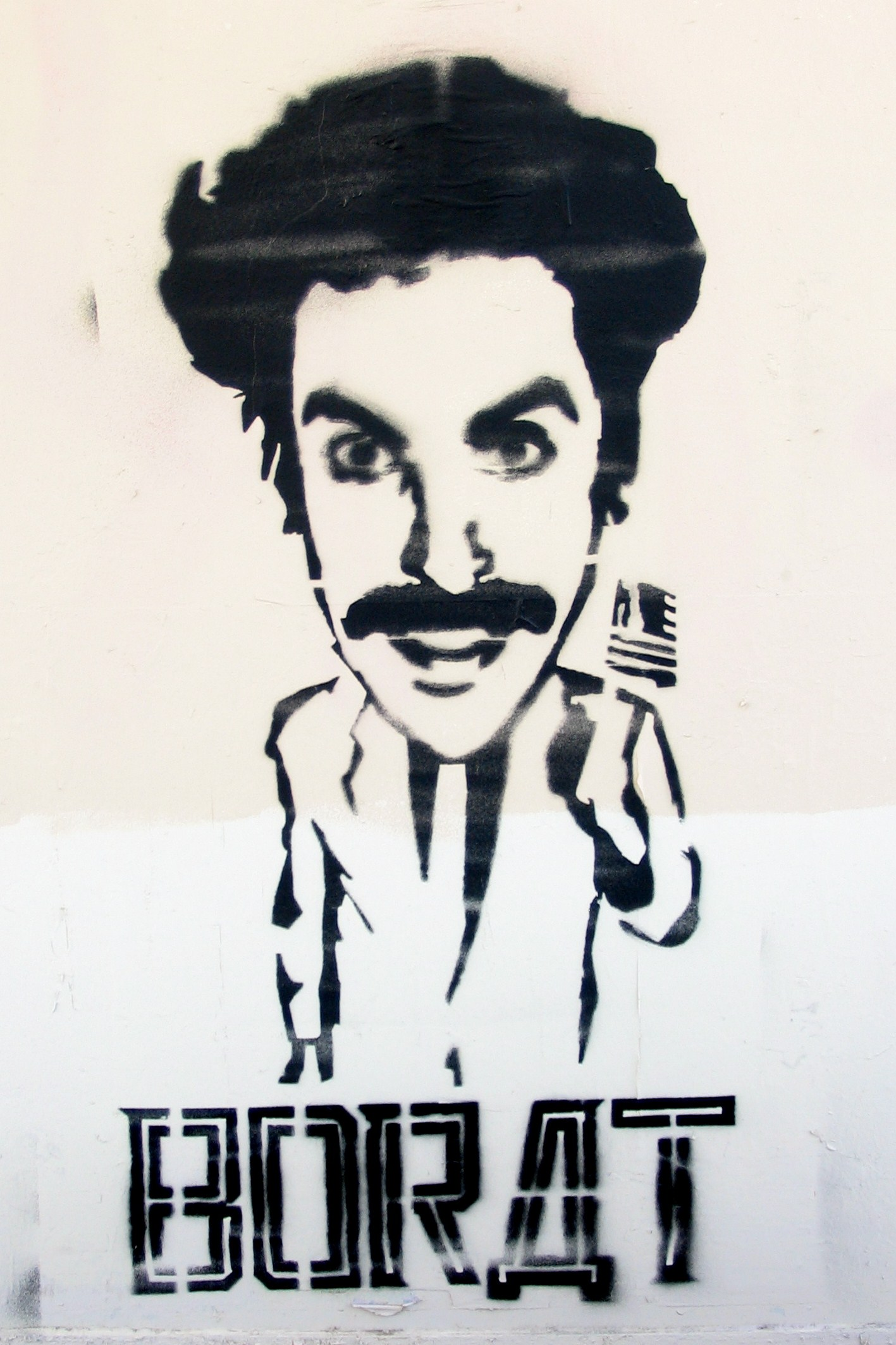 Borat in art, in Adelaide (Australia).